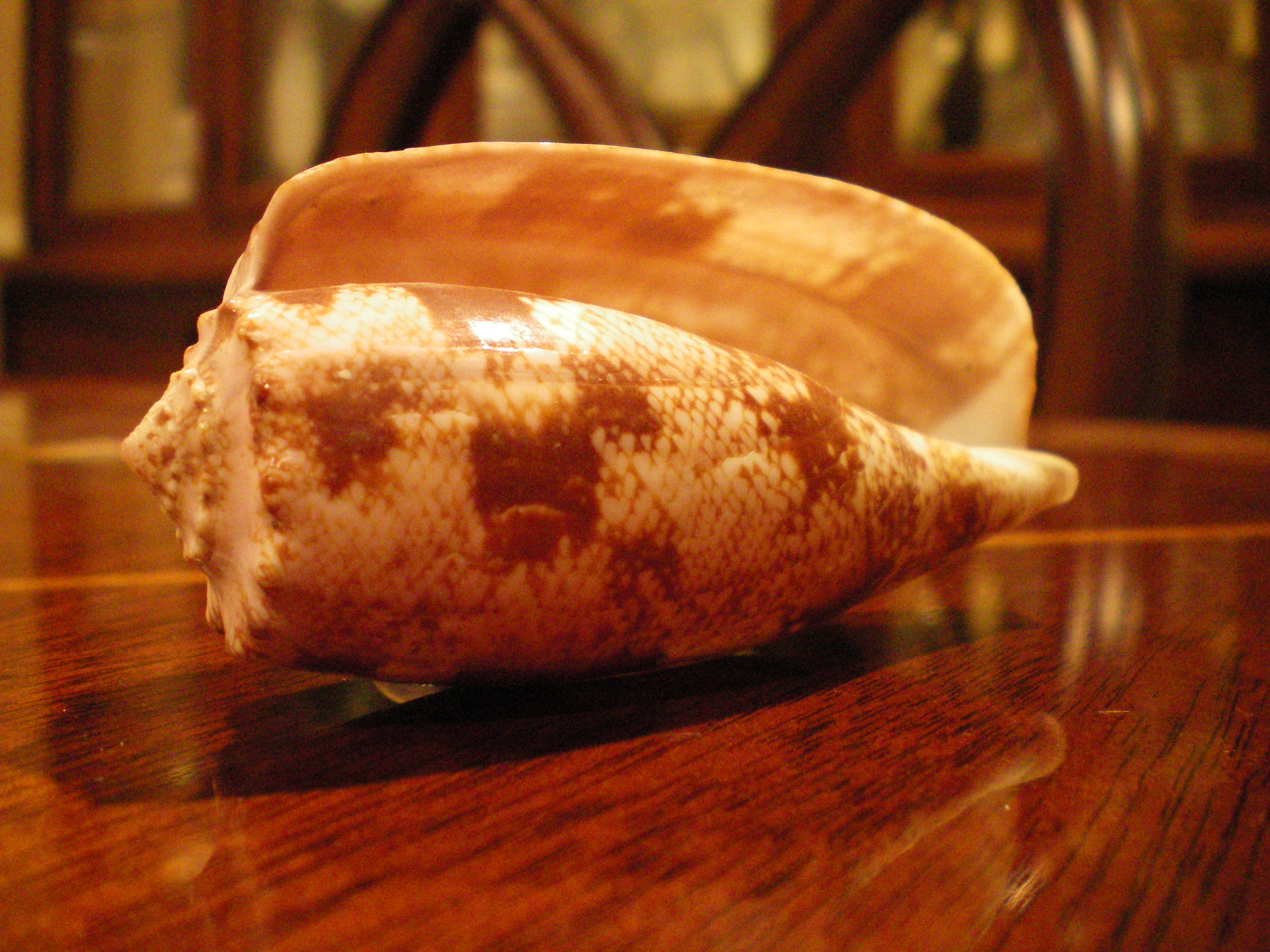 Conus geographus, the geography cone